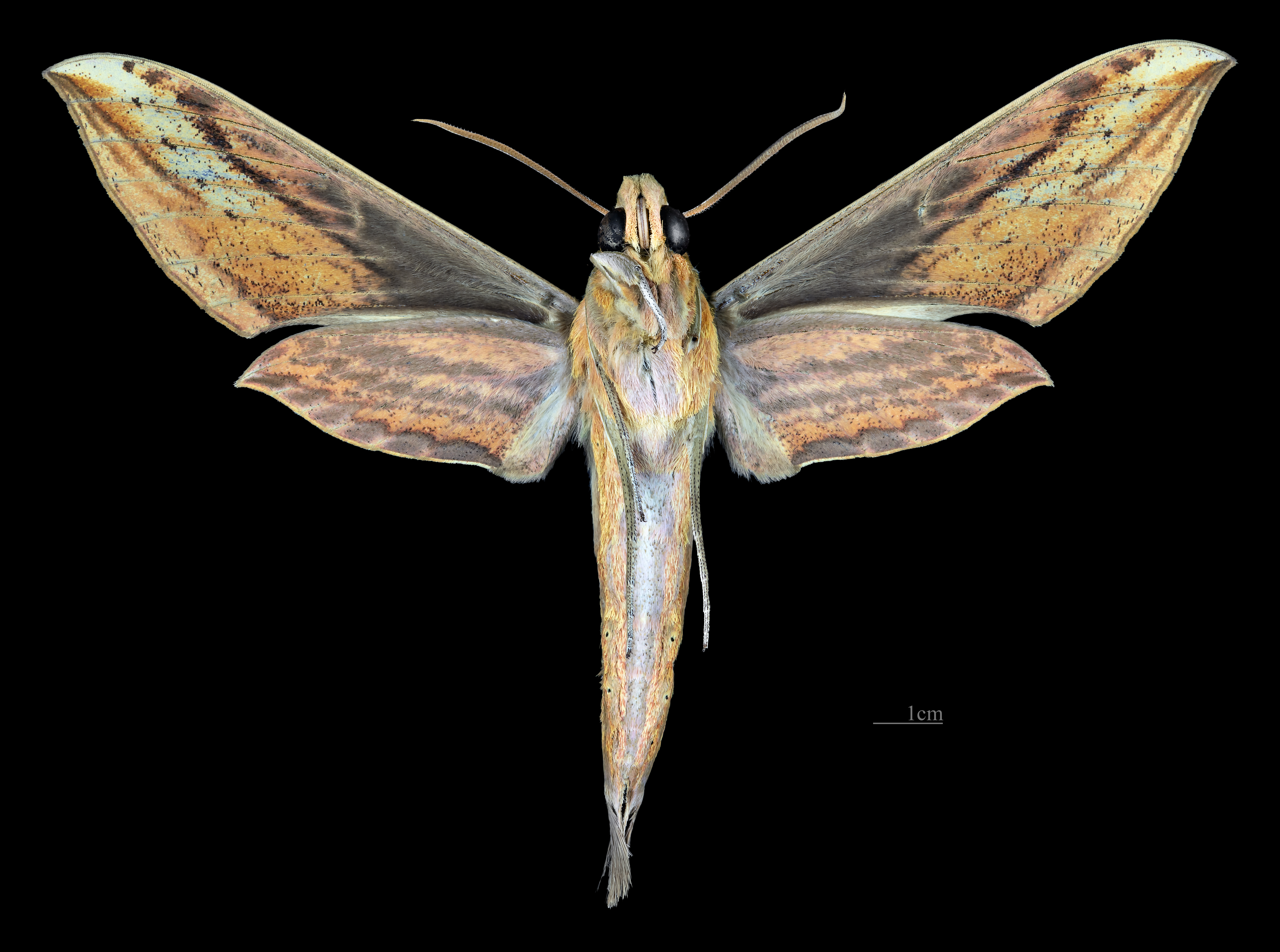 Xylophanes resta - △ Ventral side Collection of the Mathematician Laurent Schwartz